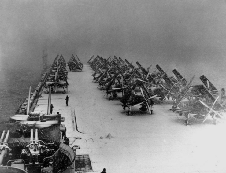 USS Philippine Sea (CV-47) flight deck scene, looking aft from the island, as the carrier is enveloped in a snowstorm off the Korean coast, 15 November 1950. Planes on deck include Vought F4U-4B Corsair fighters and Douglas AD Skyraider attack planes. Note men on deck, apparently tossing snowballs, and what may be a toppled snowman just in front of the amidships elevator.